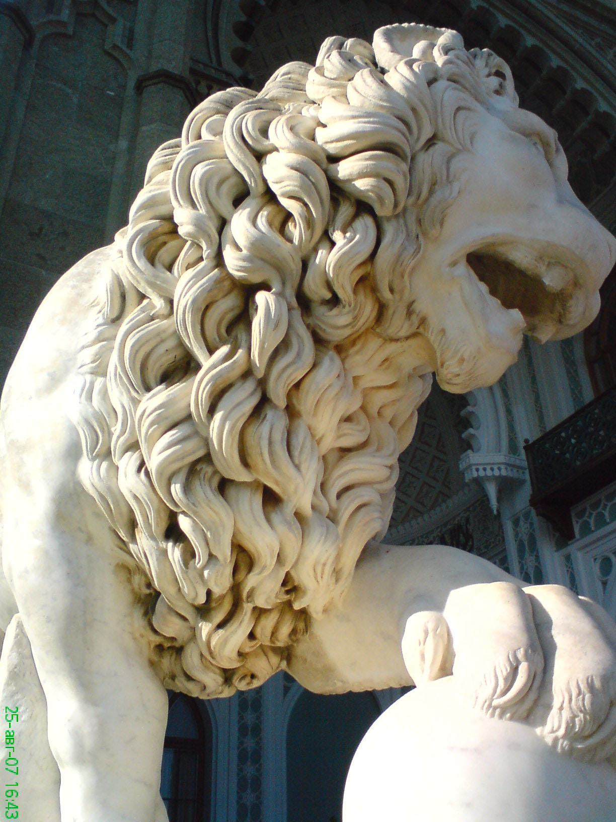 Lion's statue, plased on the southern façade of the Vorontsovsky Palace, in the town of Alupka in Crimea, Ukraine.